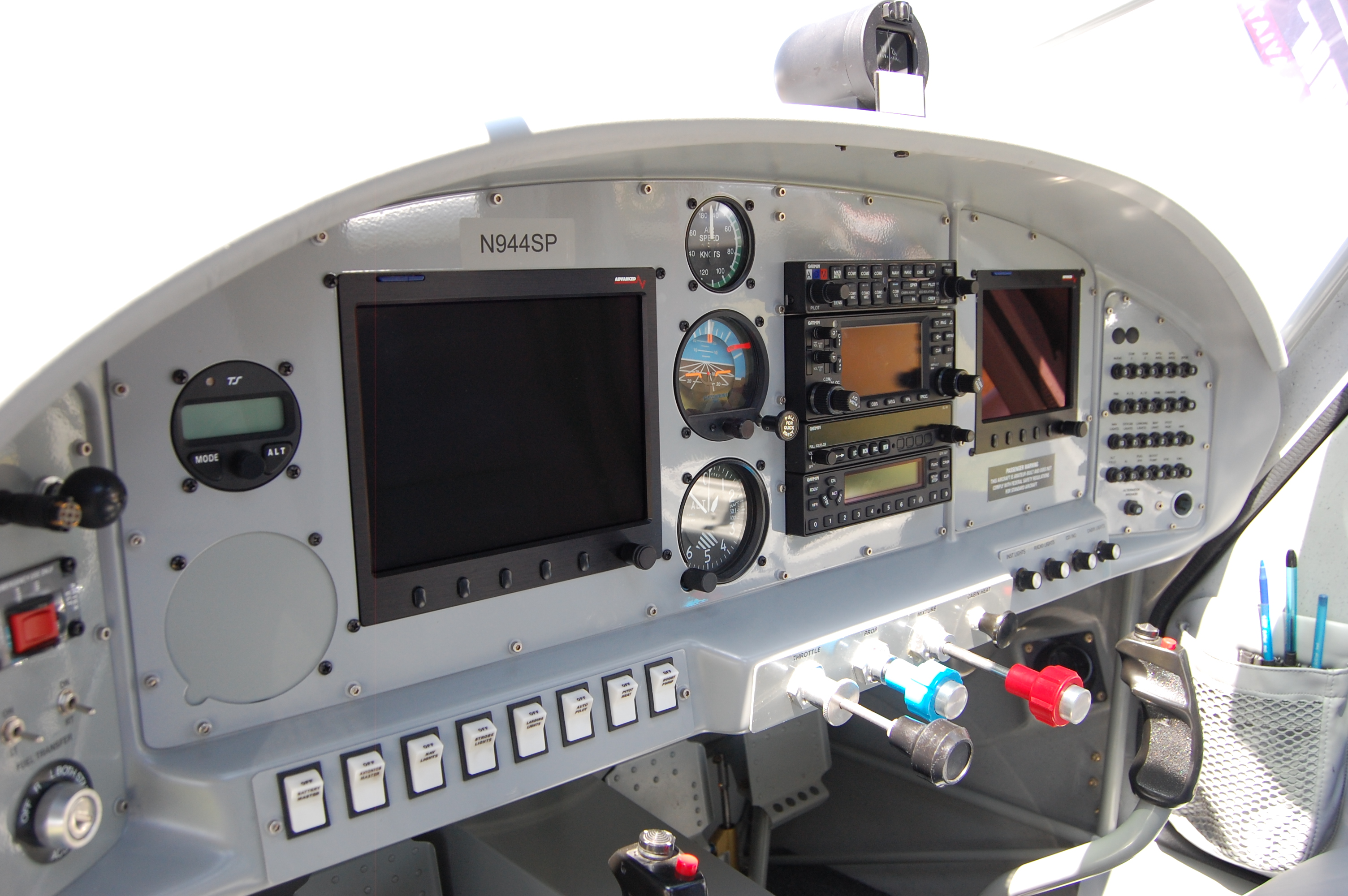 The cockpit of a Glasair Sportsman (N944SP), featuring an Advanced Flight Systems flight deck. This is a normal configuration amoung builders.